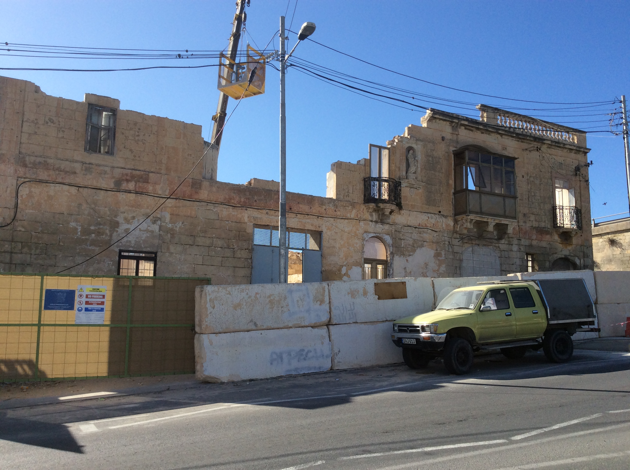 Qormi monuments